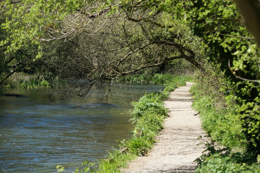 The Itchen Navigation below disused lock 11, showing the foot path